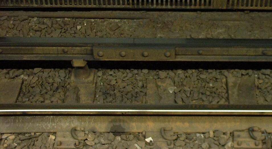 Third rail at the South Station stop on the MBTA Red Line. While the third rail shown here may look old and grungy, it is actually advanced mass transit technology. Third rail is subject to heavy wear and must be made out a strong material, typically steel. Unfortunately, steel is a relatively poor electrical conductor. A new method for reducing the resulting resistive losses is to attach strips of aluminum (which is a better conductor of electricity) to the steel third rail. Since aluminum has a different coefficient of thermal expansion from steel, the strips must be applied on both sides and riveted at frequent intervals. The third rail pictured here uses this method.